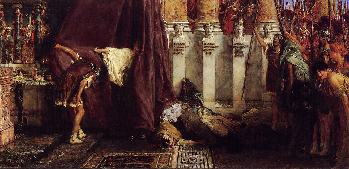 Ave, Caesar! Io, Saturnalia! Sir Lawrence Alma-Tadema - 1880 Akron Art Museum (United States) Painting - oil on panel